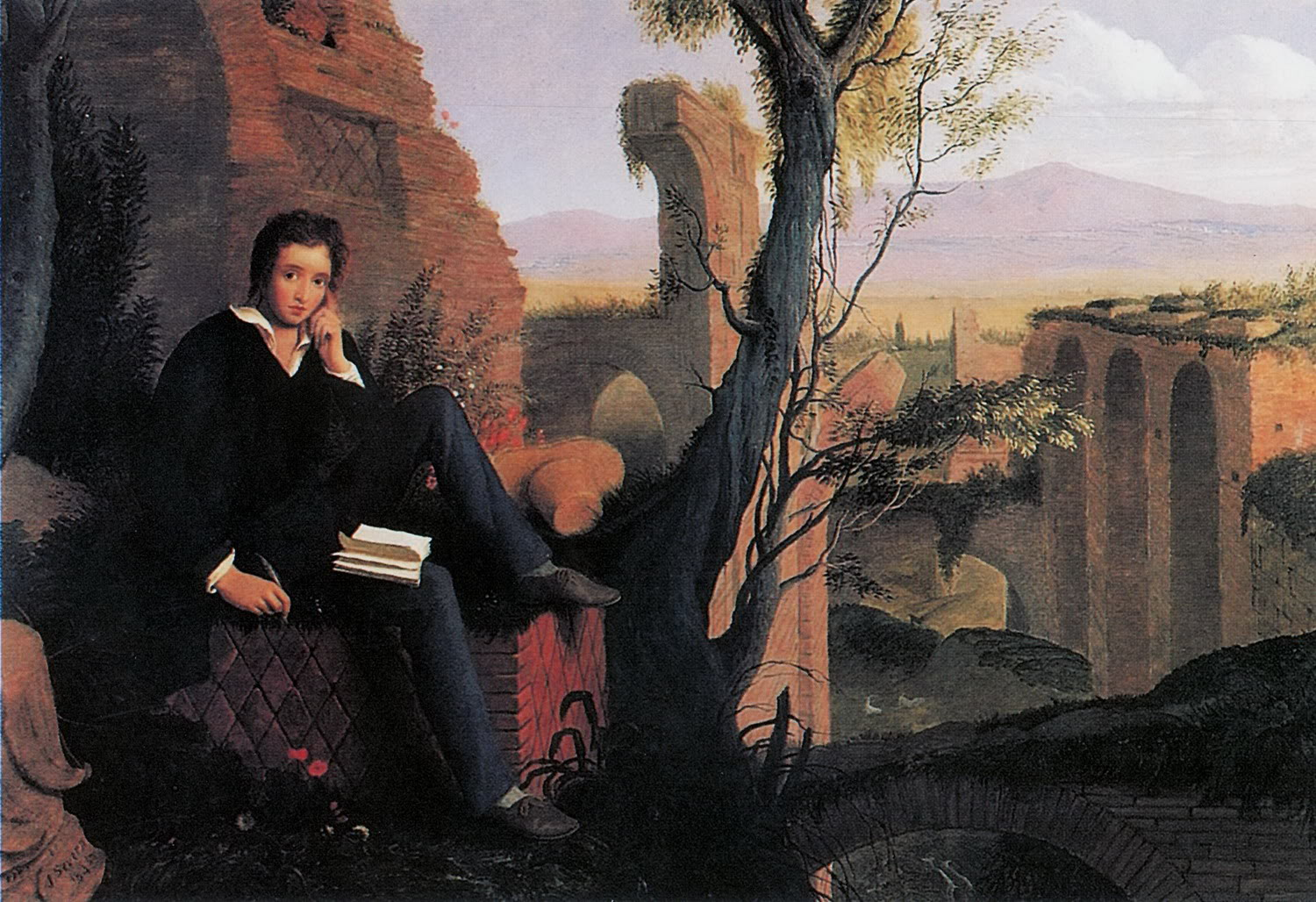 Posthumous Portrait of Shelley Writing Prometheus Unbound, oil on canvas. Keats-Shelley Memorial House, Rome, Italy.